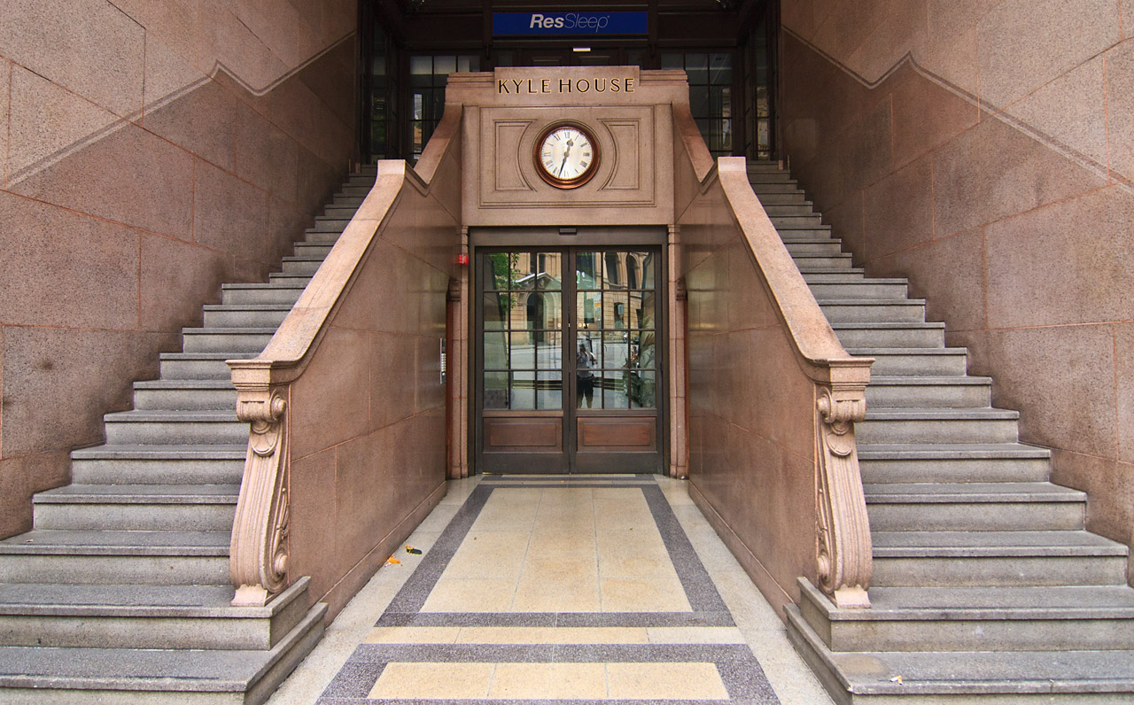 Sydney, Australia 20101228-IMG_4672